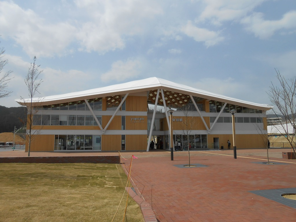 JR East Ishinomaki line Onagawa station (with Onagawa-onsen "Yupopo"）